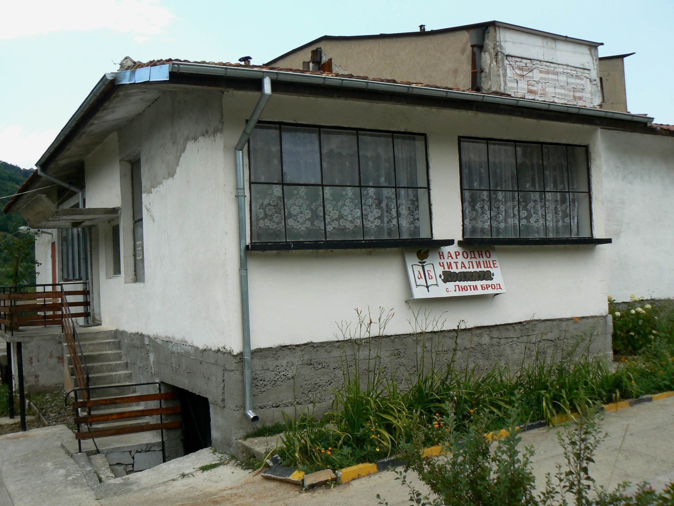 Library "Kolkata" in village Lyutibrod, Bulgaria